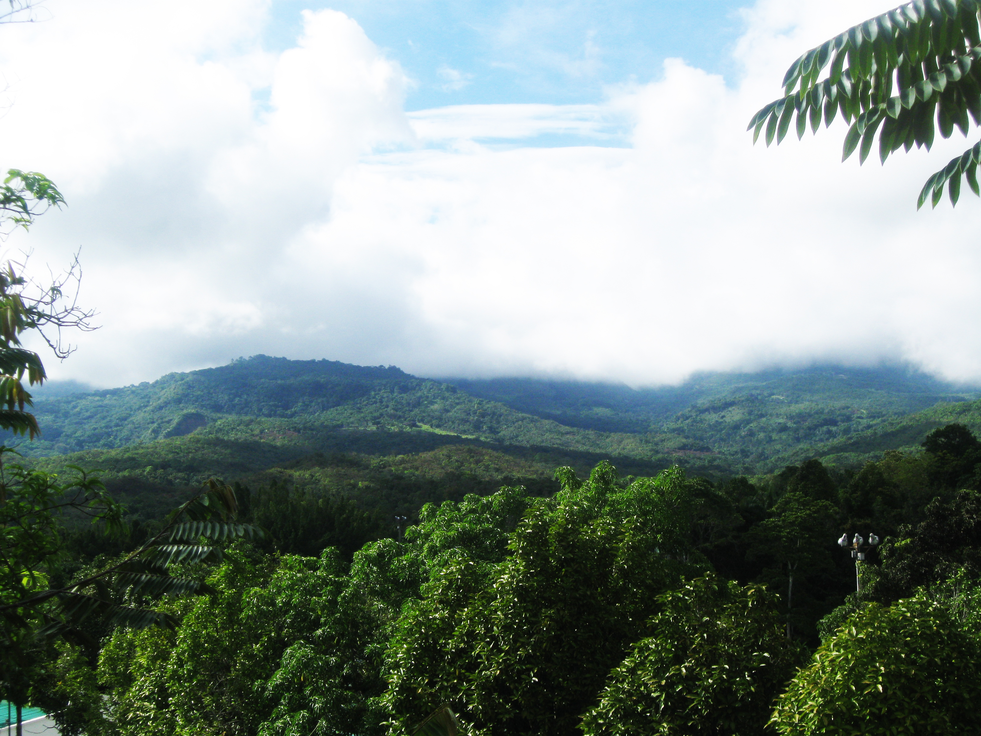 Mountains in Tolima Colombia